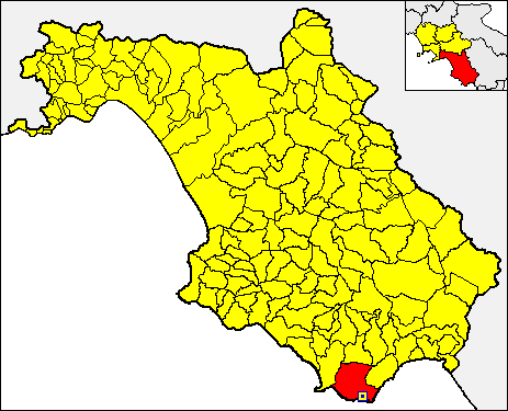 Locator map of Marina di Camerota (yellow and blue dot) within the Province of Salerno (shown in yellow) and Camerota municipality (shown in red)